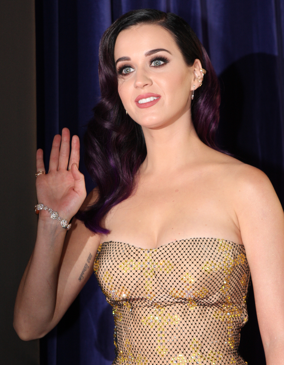 Katy Perry: Part Of Me Australian Premiere in June 2012.